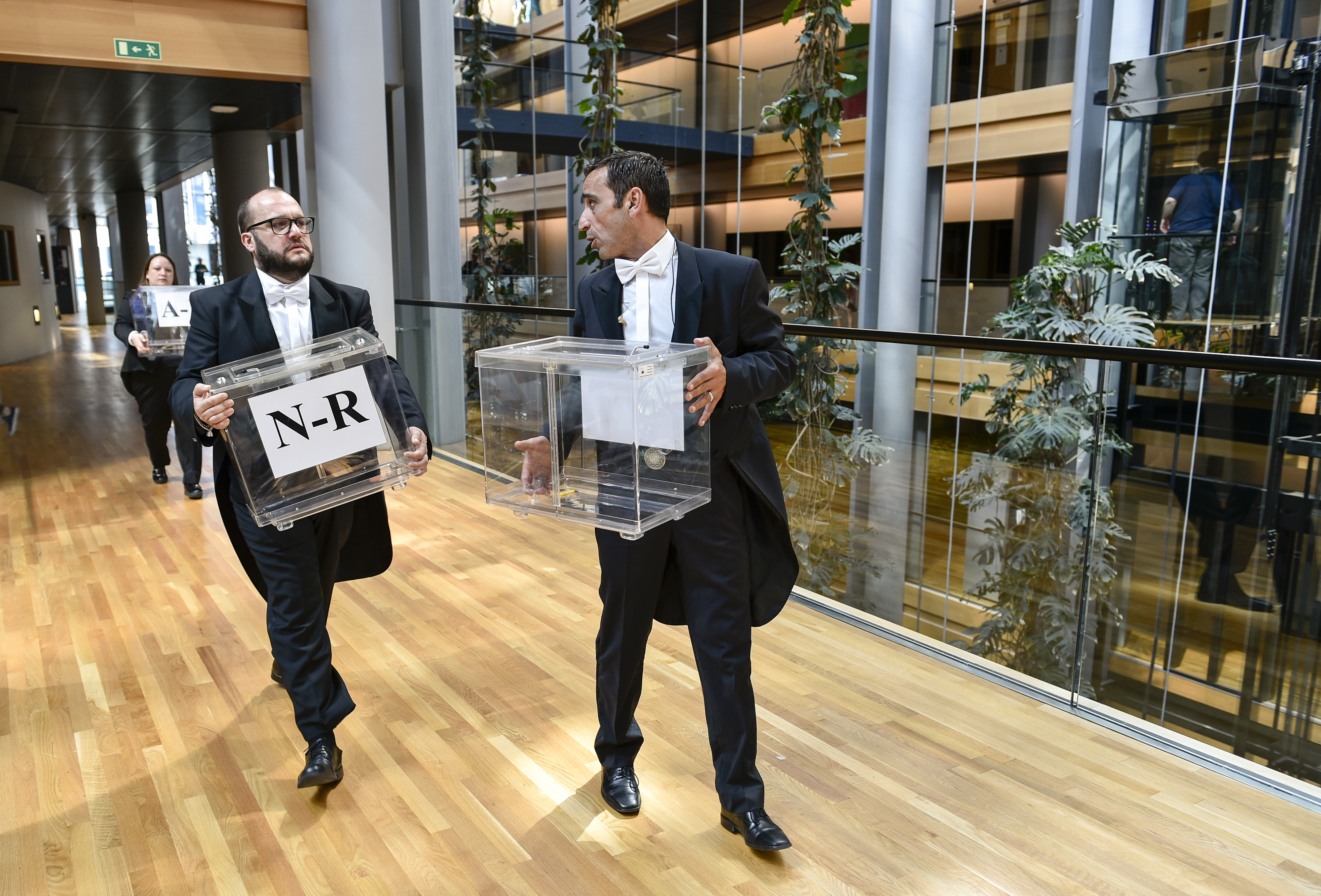 Read more: 9th European Parliament since first direct elections in 1979 starts today MEPs elected from 190 political parties in 28 member states 61% new MEPs 60% men, 40% women This photo is free to use under Creative Commons license CC-BY-4.0 and must be credited: "CC-BY-4.0: © European Union 2019 – Source: EP". No model release form if applicable. For bigger HR files please contact: webcom-flickr(AT)